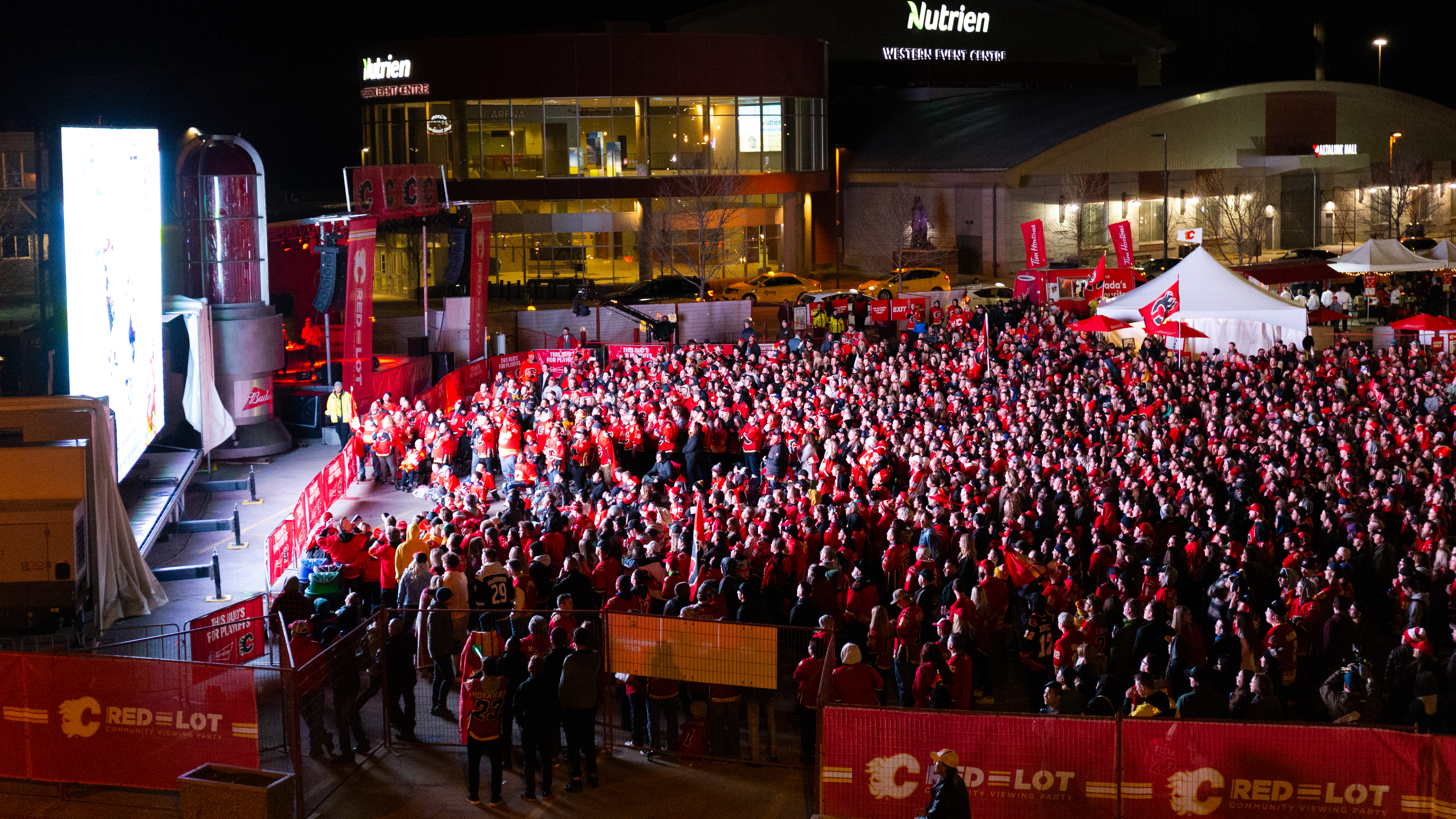 Week 15 - Anonymous I remember the 2004 Flames playoff run very well, I had just finished my BSc in Computer Science from the University of Calgary. 15 years later, we're looking pretty good to make another run at the Stanley Cup :D In a crowd, the individual person is anonymous, but as a whole, you can clear identify this as the C of Red in Calgary Alberta Canada. Look at this low light performance from the Canon 6D on a f4 24-70mm @ ISO6400. Good enough for me! Exactly why I still haven't upgraded even though the Canon 6D came out in 2012. GO FLAMES GO!!!